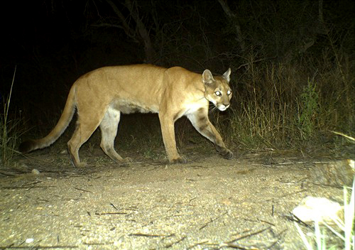 A cougar (Puma concolor) in Saguaro National Park, Arizona.